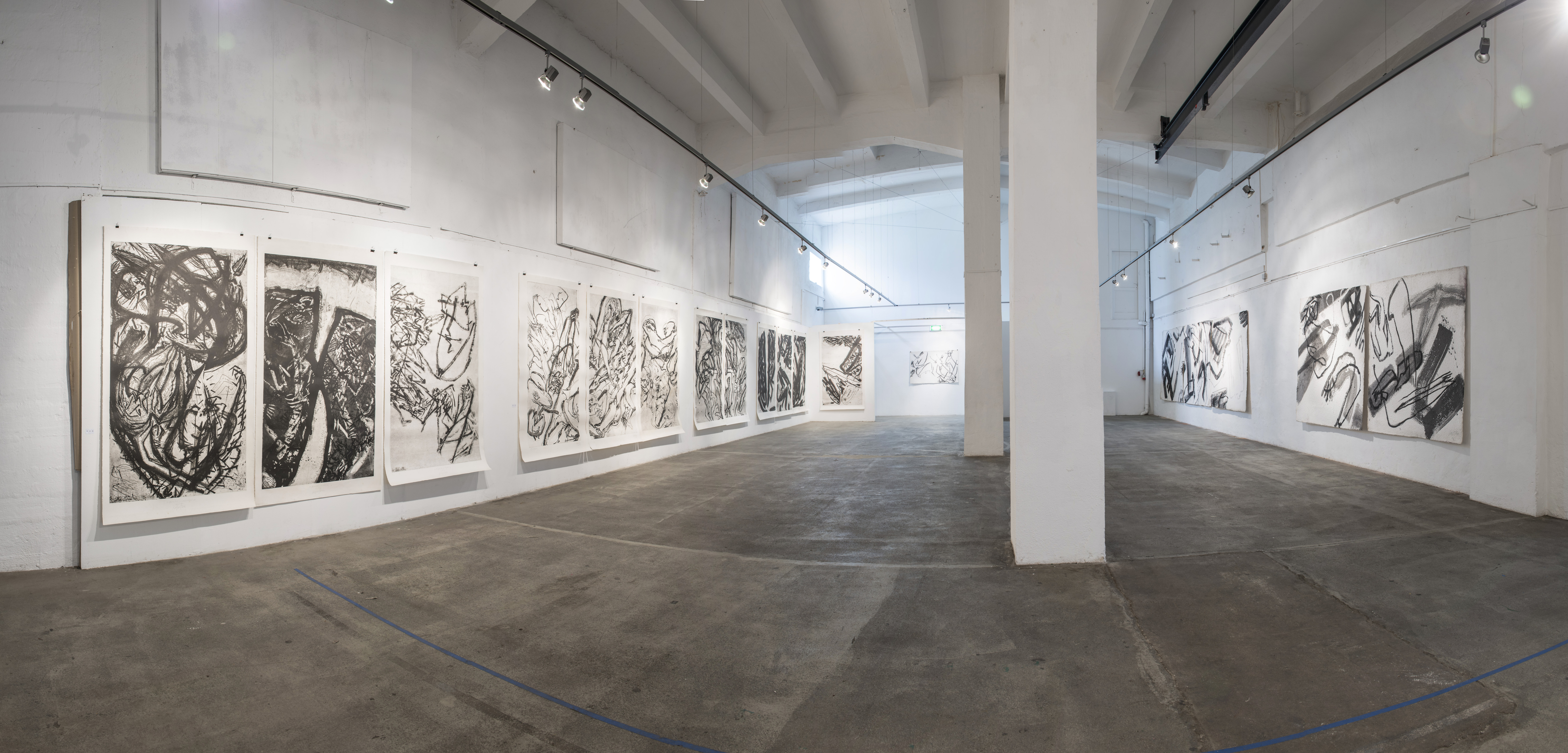 Österr. Papiermachermuseum 2015